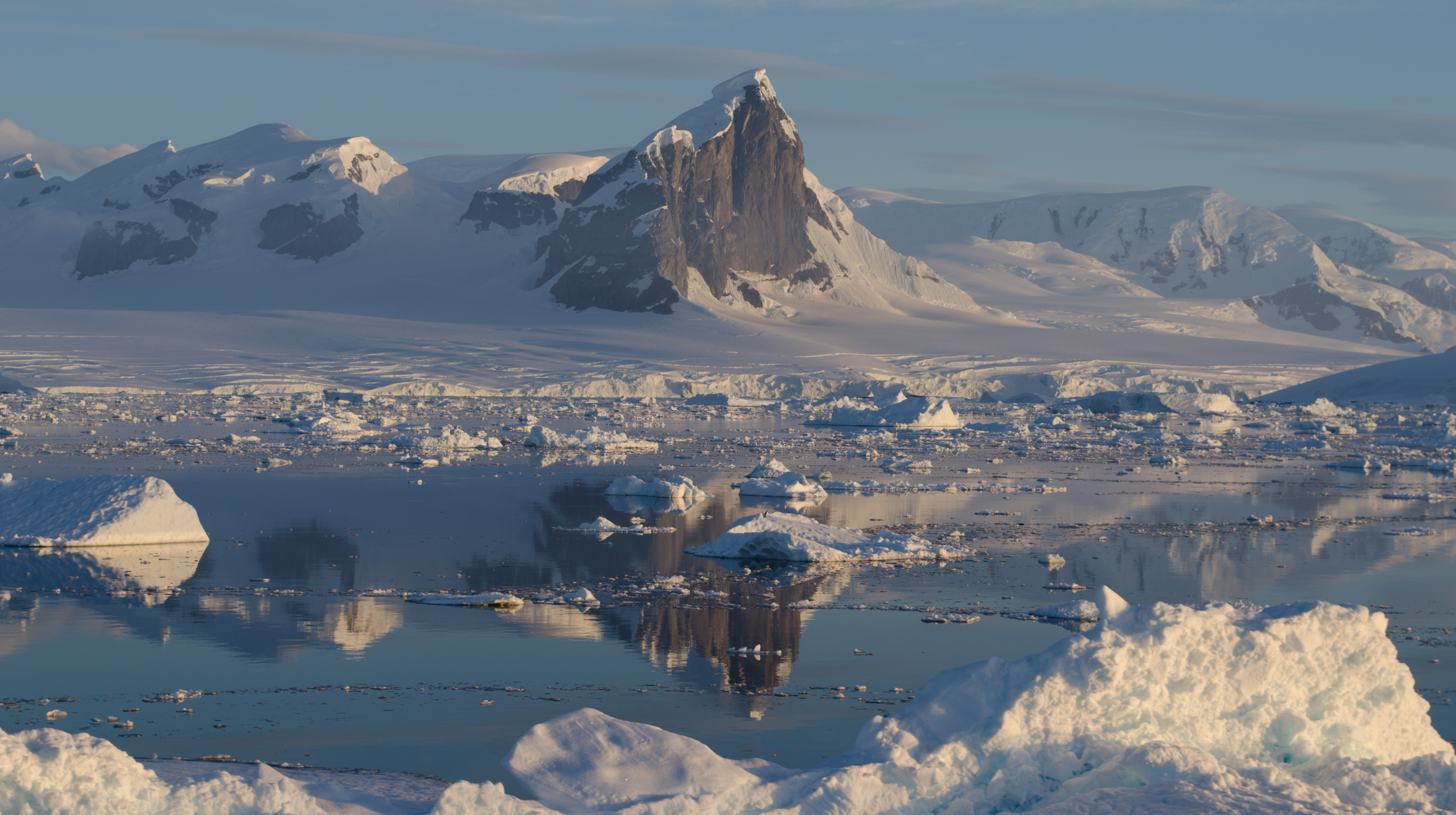 Mudge Passage (66°2′S 65°50′W) is a marine passage running east-west from the vicinity of Prospect Point, Graham Coast.